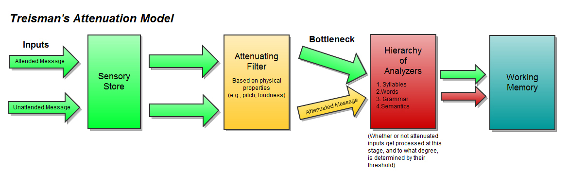 Diagram of how the attenuation theory of selective attention operates.